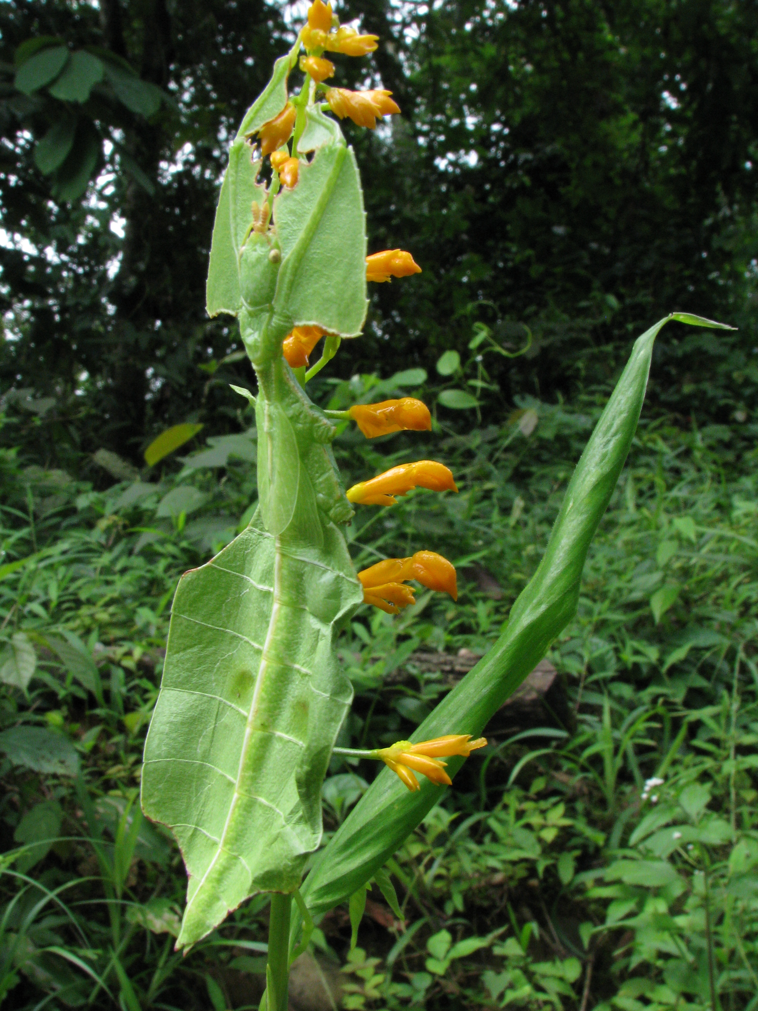 Leaf insect in Pakke Tiger Reserve